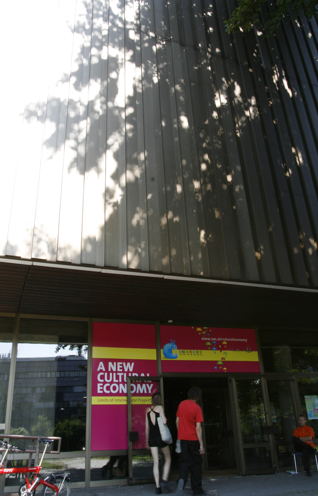 Entrance of the Brucknerhaus during the Ars Electronica Festival 2008 (Linz)